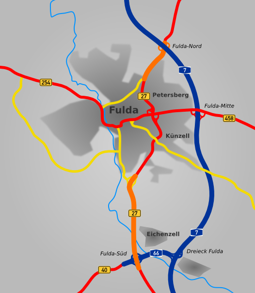 National traffic routes (Bundesstraße and Bundesautobahn) around Fulda, Germany.